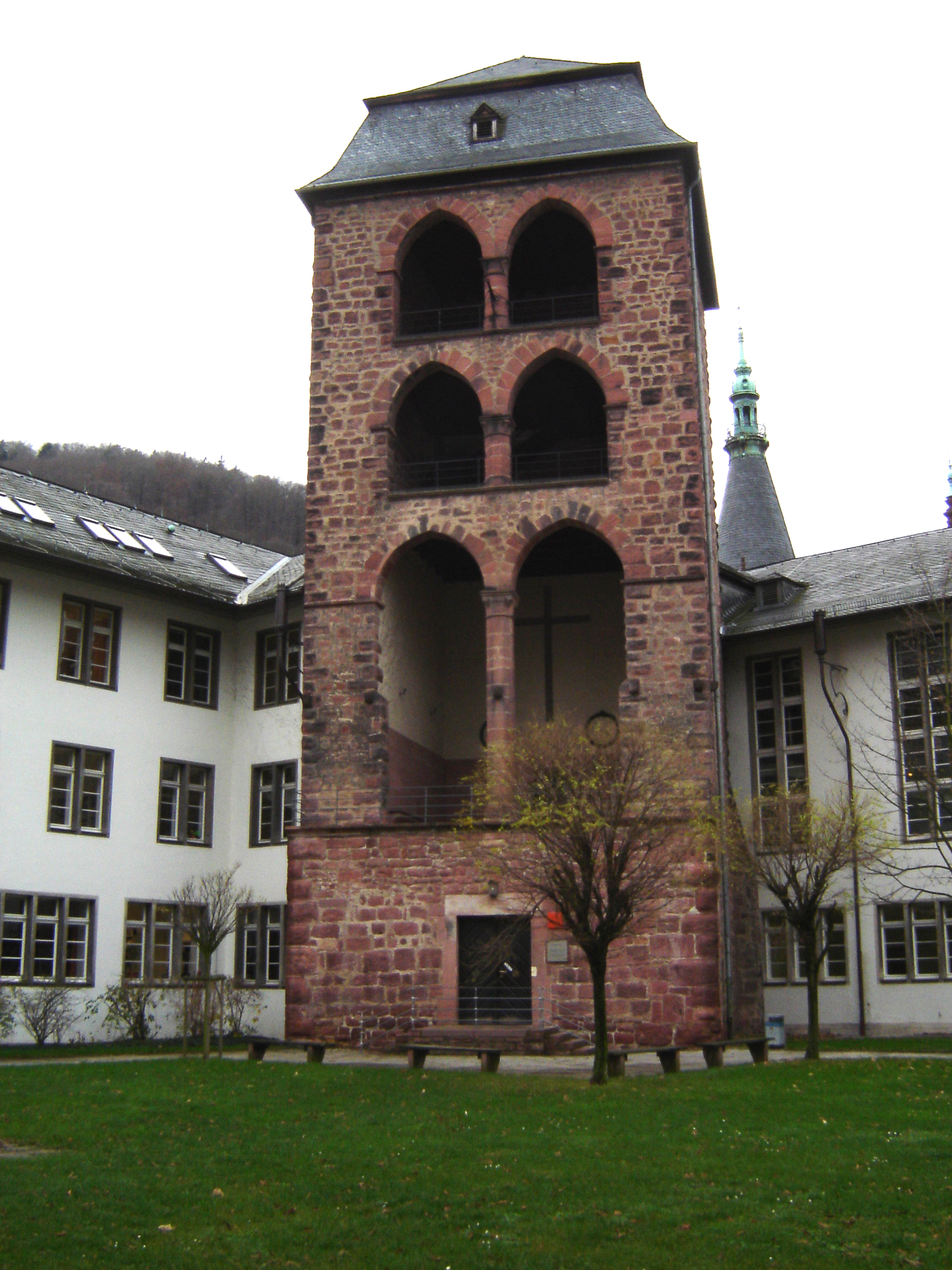 So-calles "witch tower" on the courtyard of the New University building in Heidelberg, Germany